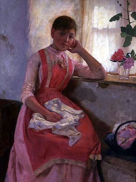 Portrait Of A Girl In A Pink Apron